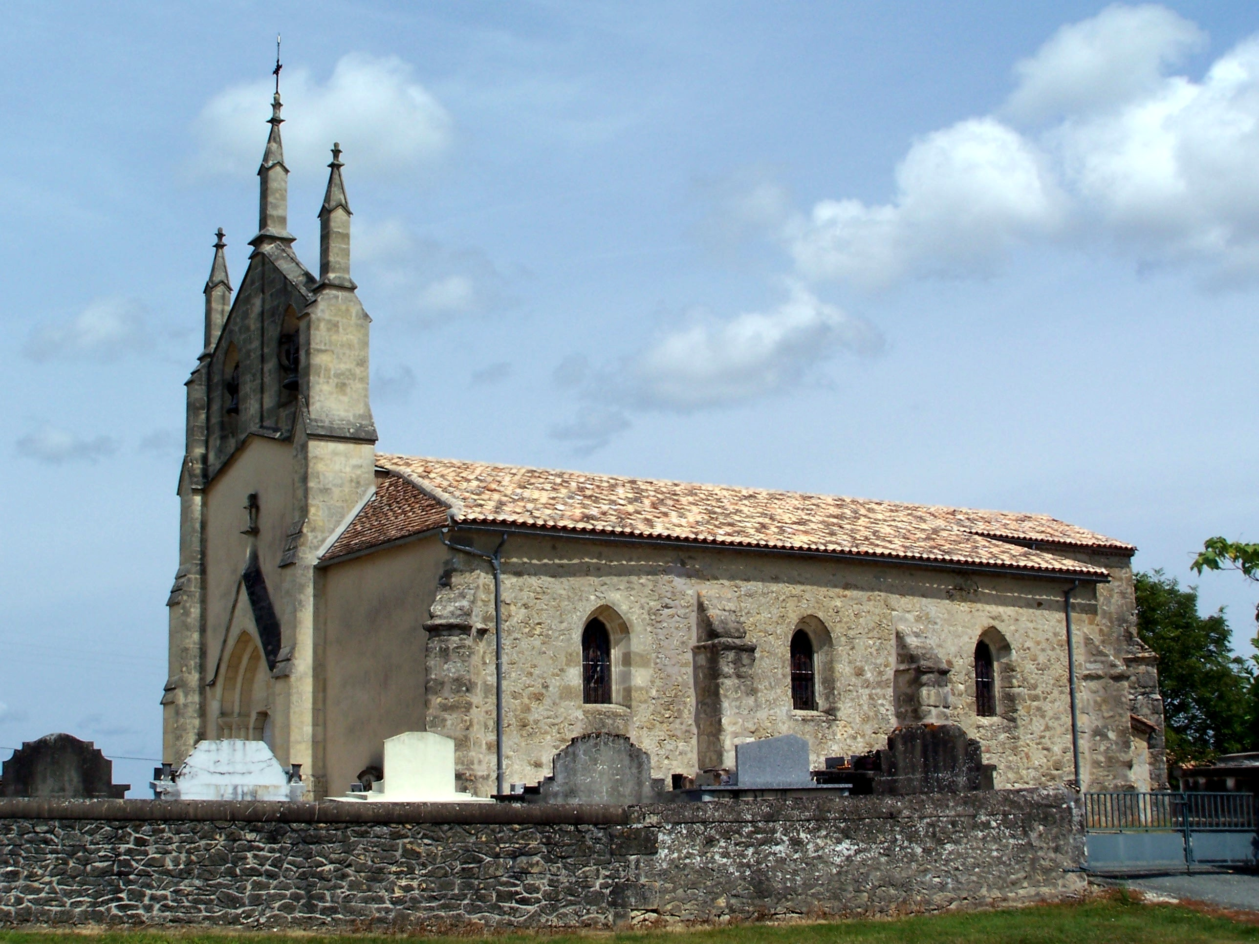 Church Saint-Pierre of Cazaugitat (Gironde, France)